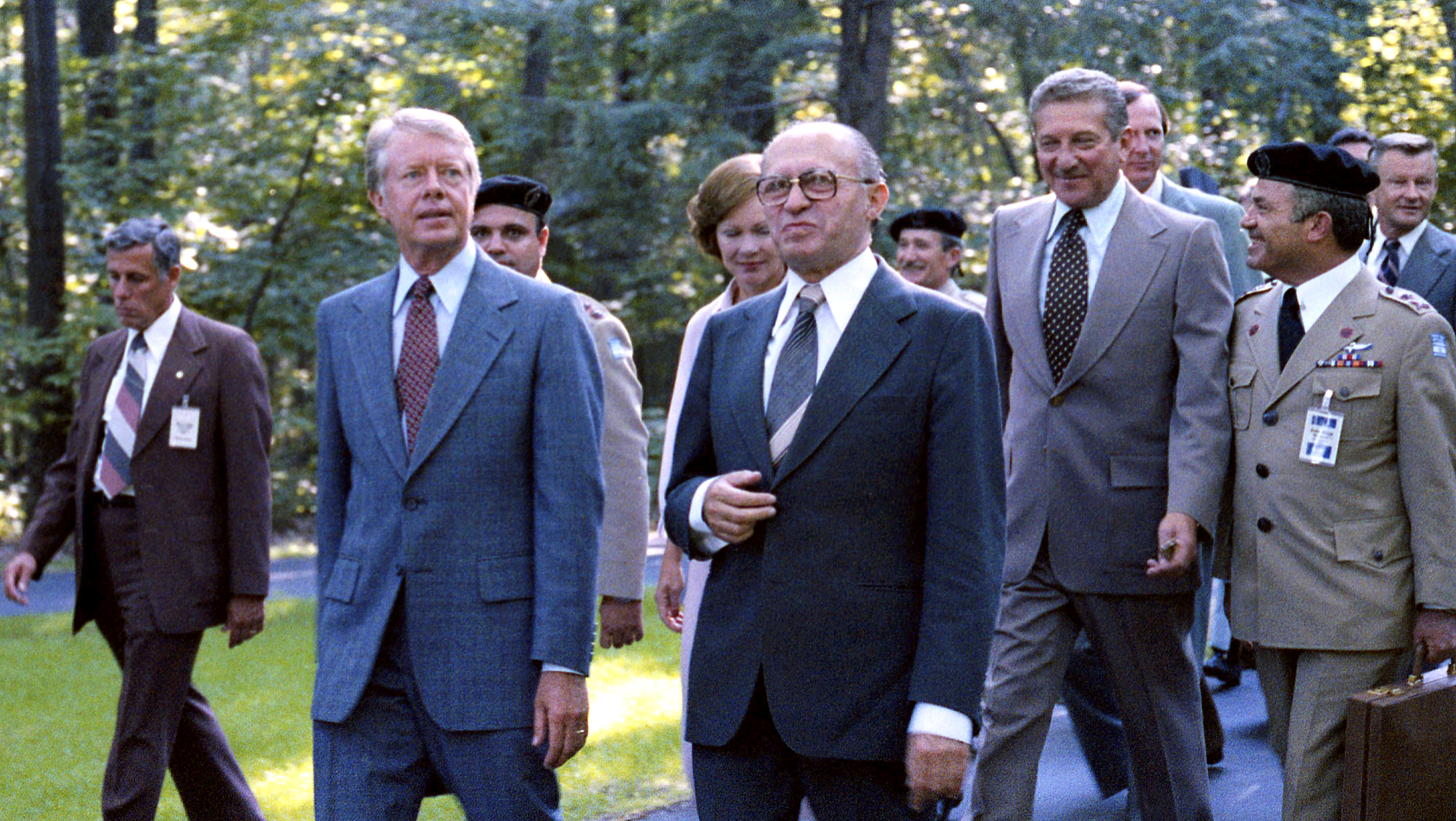 President Jimmy Carter, Israeli Prime Minister Menachem Begin and Zbigniew Brzezinski in September 1978. Photo courtesy of Jimmy Carter Library